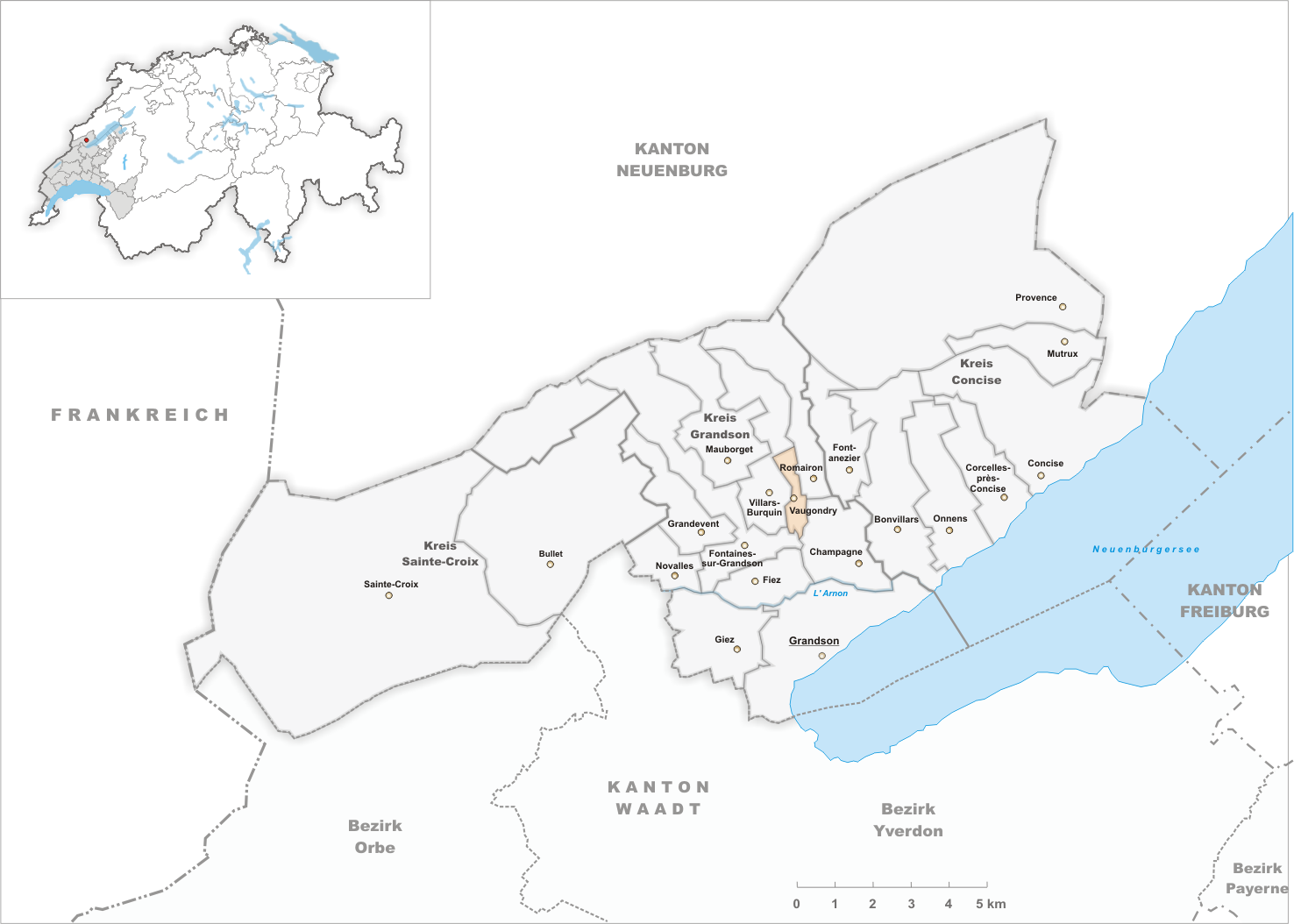 Municipality Vaugondry